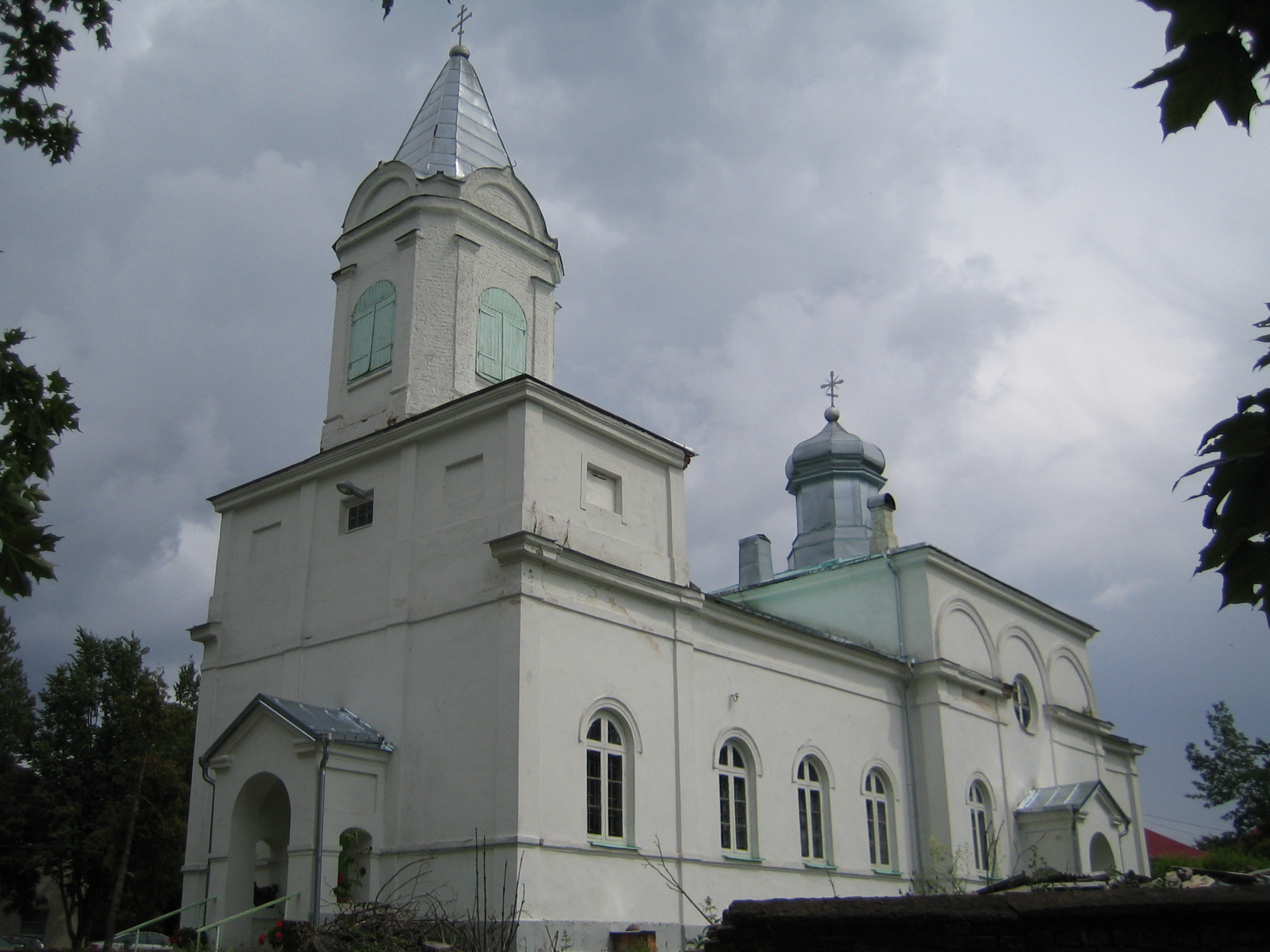 Mustvee Orthodox ChurchEesti: Mustvee Püha Nikolause kirik